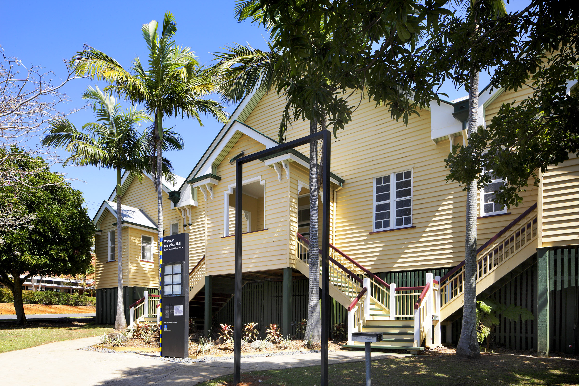 Wynnum Hall is a heritage listed, old memorial style hall.